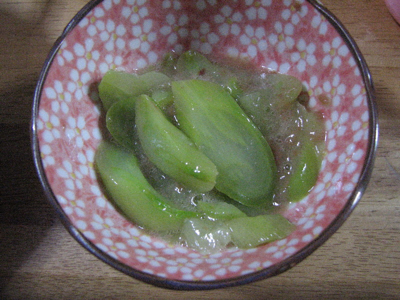 Cyathea lepifera cooked.